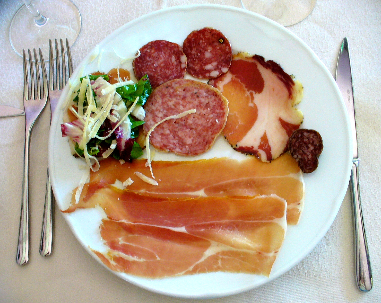 a dish of Italian appetizers